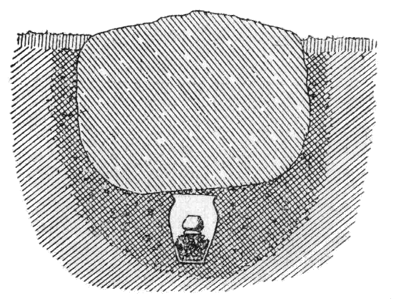 Urn tumulus from Swedish Iron age, found in Västergötland, Sweden